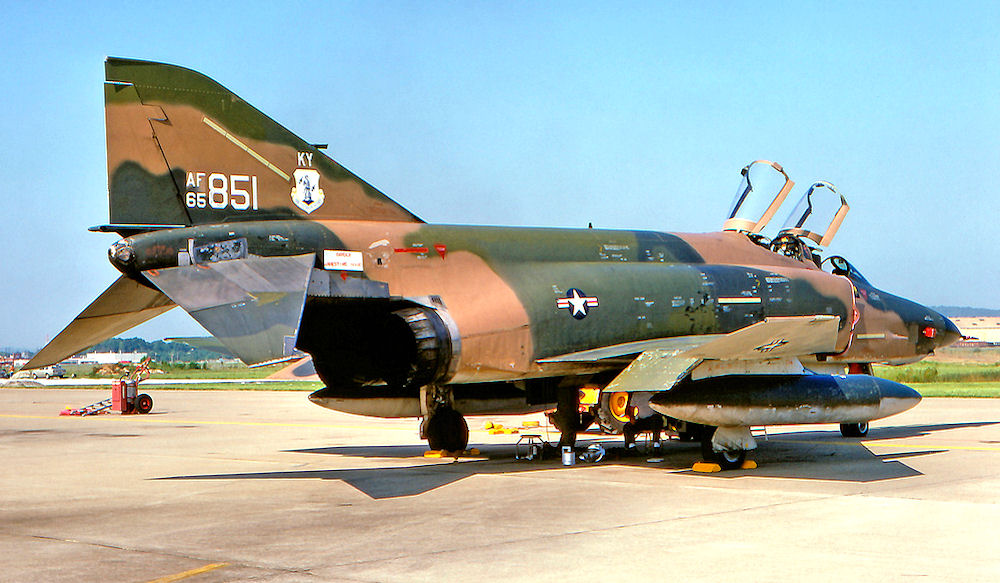 165th Tactical Reconnaissance Squadron - McDonnell RF-4C-25-MC Phantom 65-0851 Aircraft sold to Spain in 1989